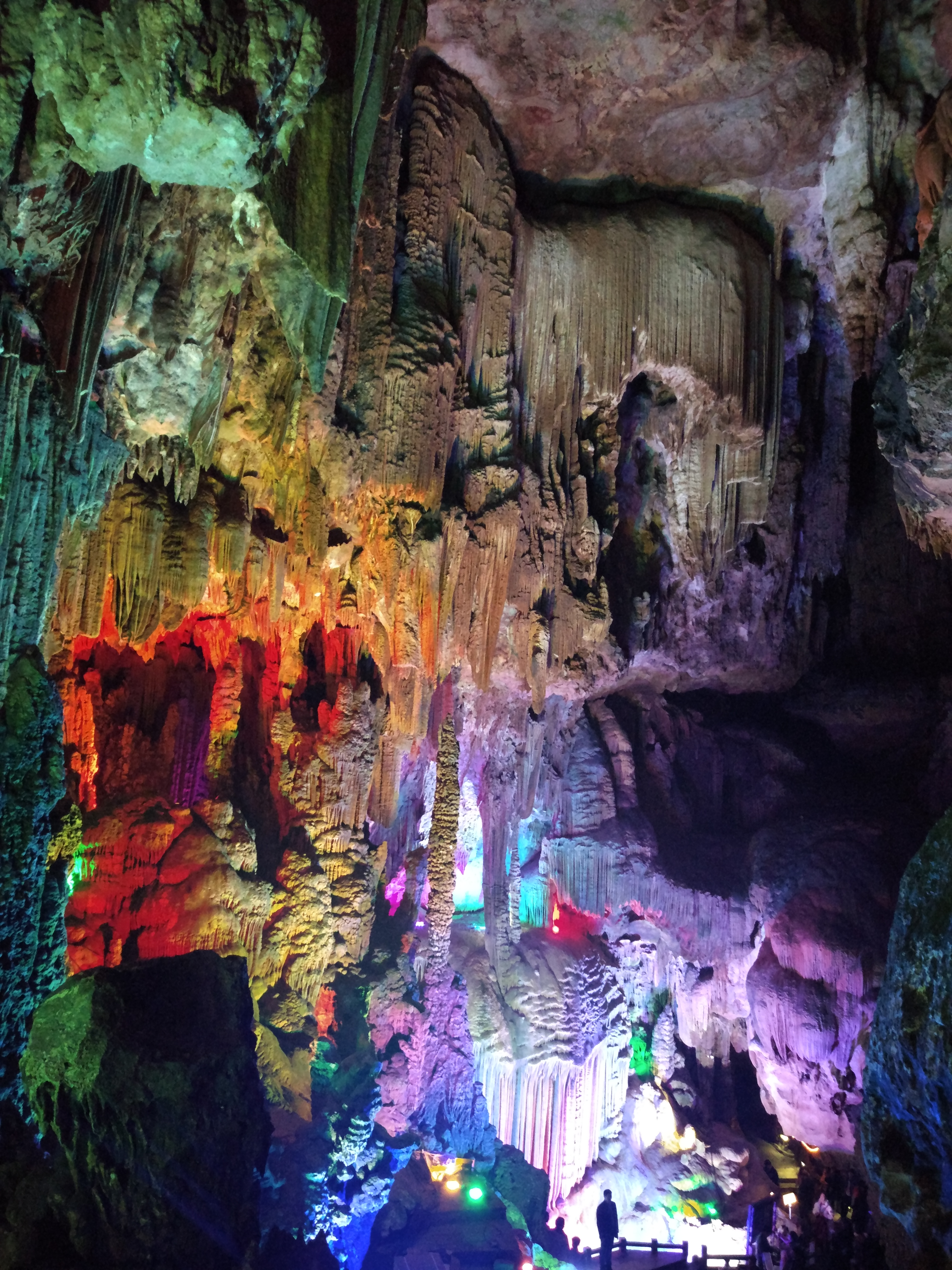 Silver Cave, close to Yangshuo